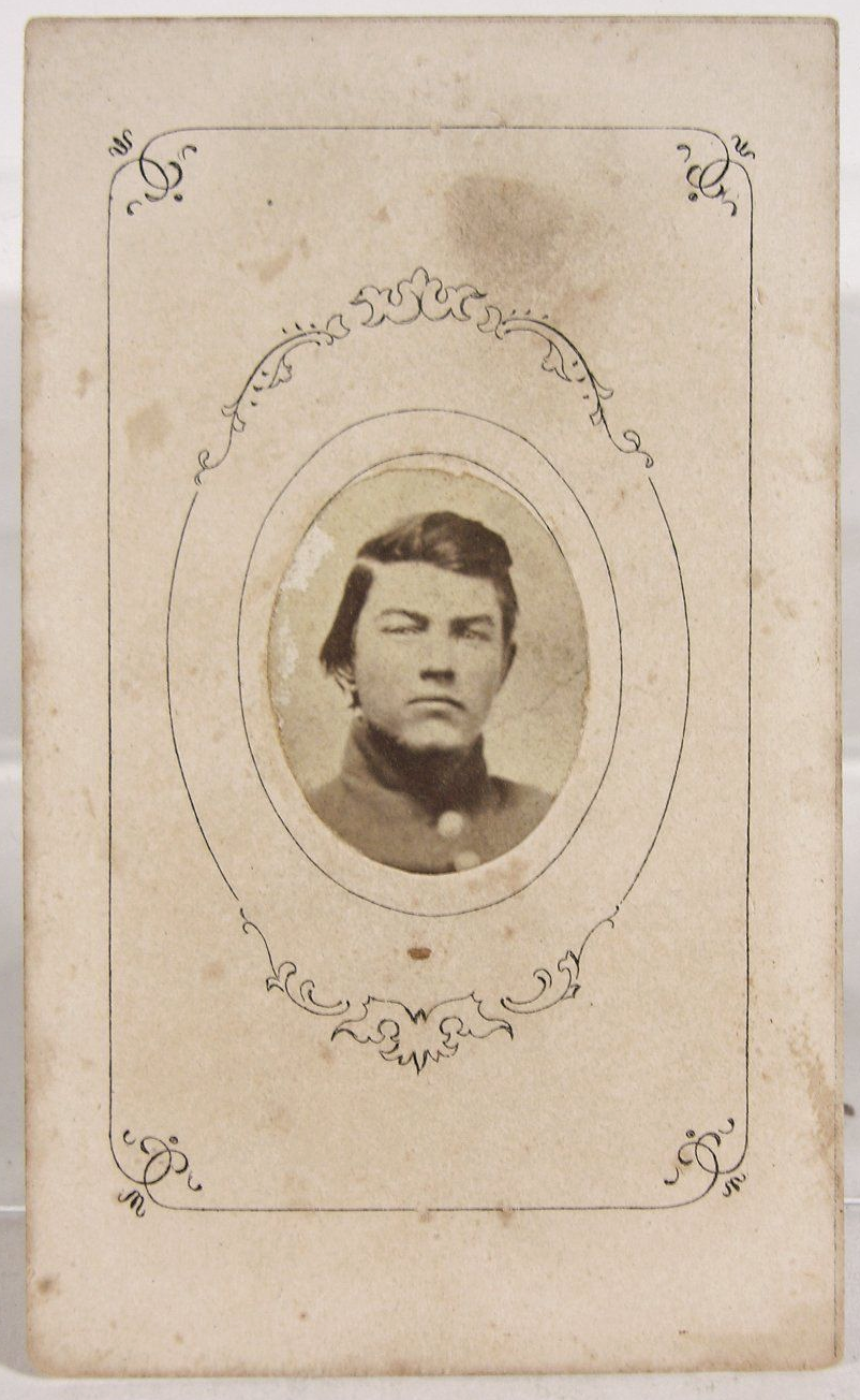 Signed Carte De Visite photograph of Union Civil War Soldier Private Julian C. Lewis of the 7th Wisconsin Volunteer Infantry Regiment - killed in action at the Second Battle of Bull Run